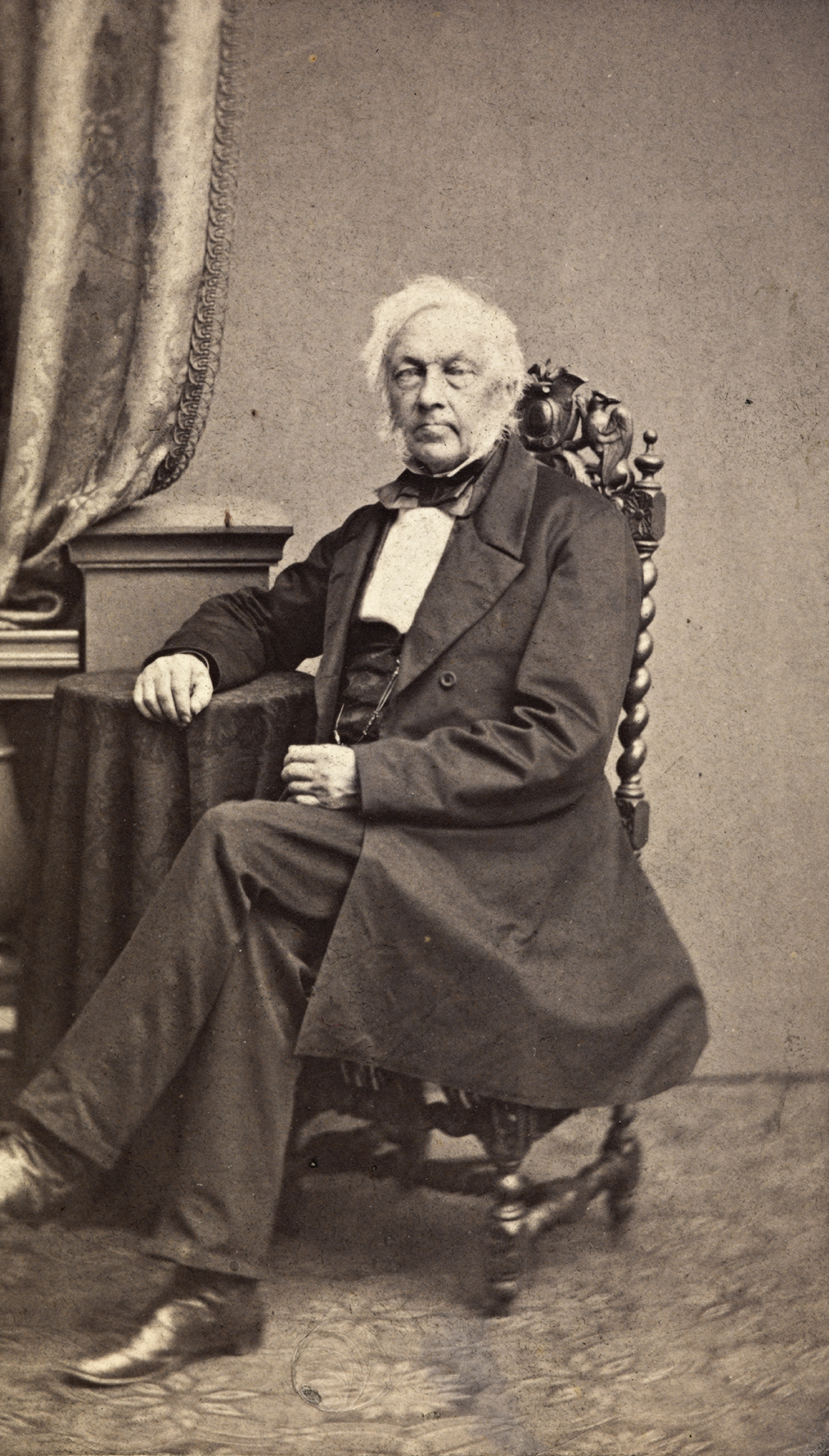 Beskrivelse / Description: Visittkort / Carte de visite. Holmboe var orientalist og numismatiker. Dato / Date: ukjent / unknown Fotograf / Photographer: P. Petersen (Christiania) Digital kopi av original / Digital copy of original: s/h papirpositiv, visittkort Eier / Owner Institution: Nasjonalbiblioteket / National Library of Norway Lenke / Link: Bildesignatur / Image Number: blds_06382